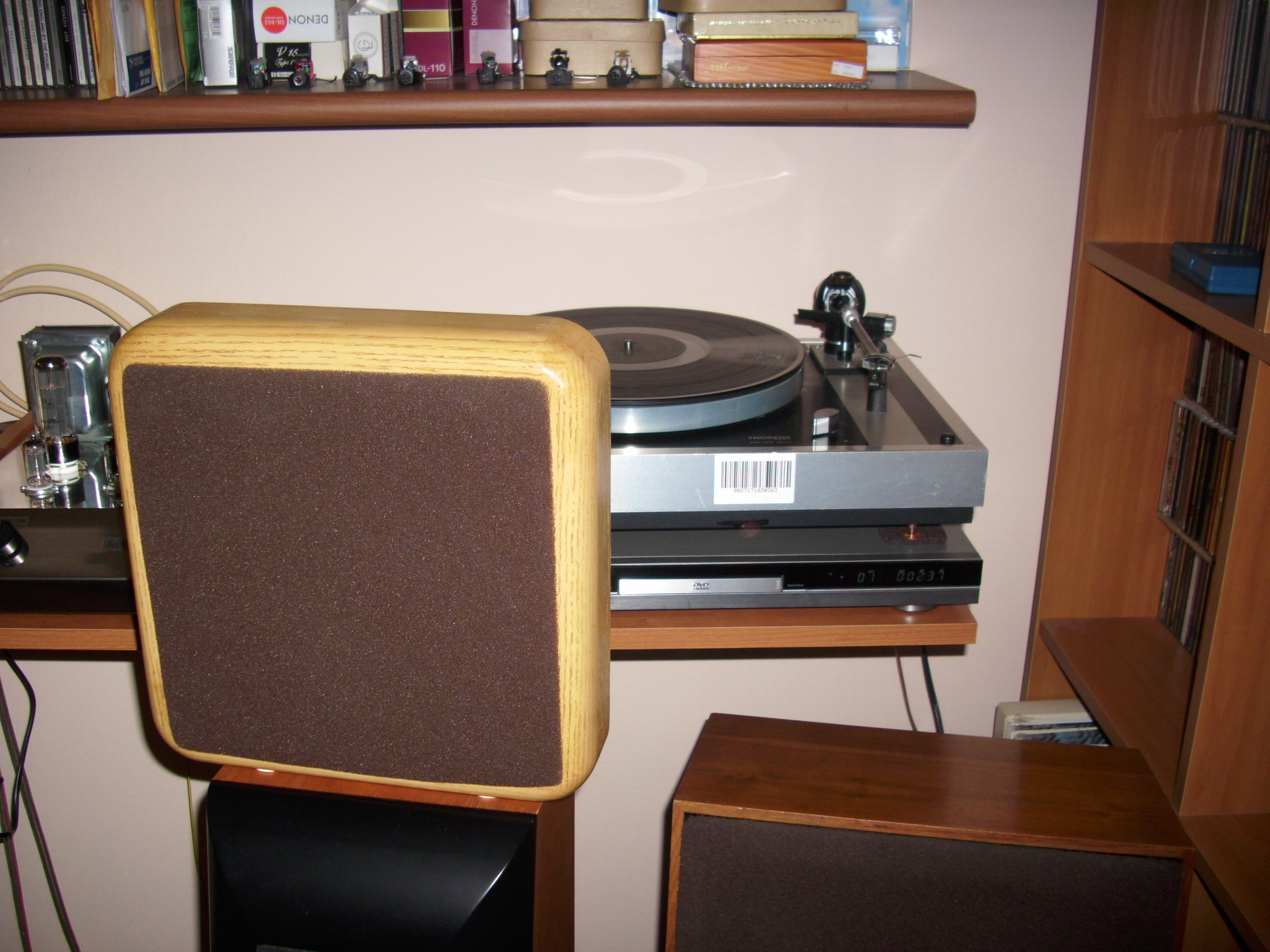 Cizek SoundWindow (my own speaker)